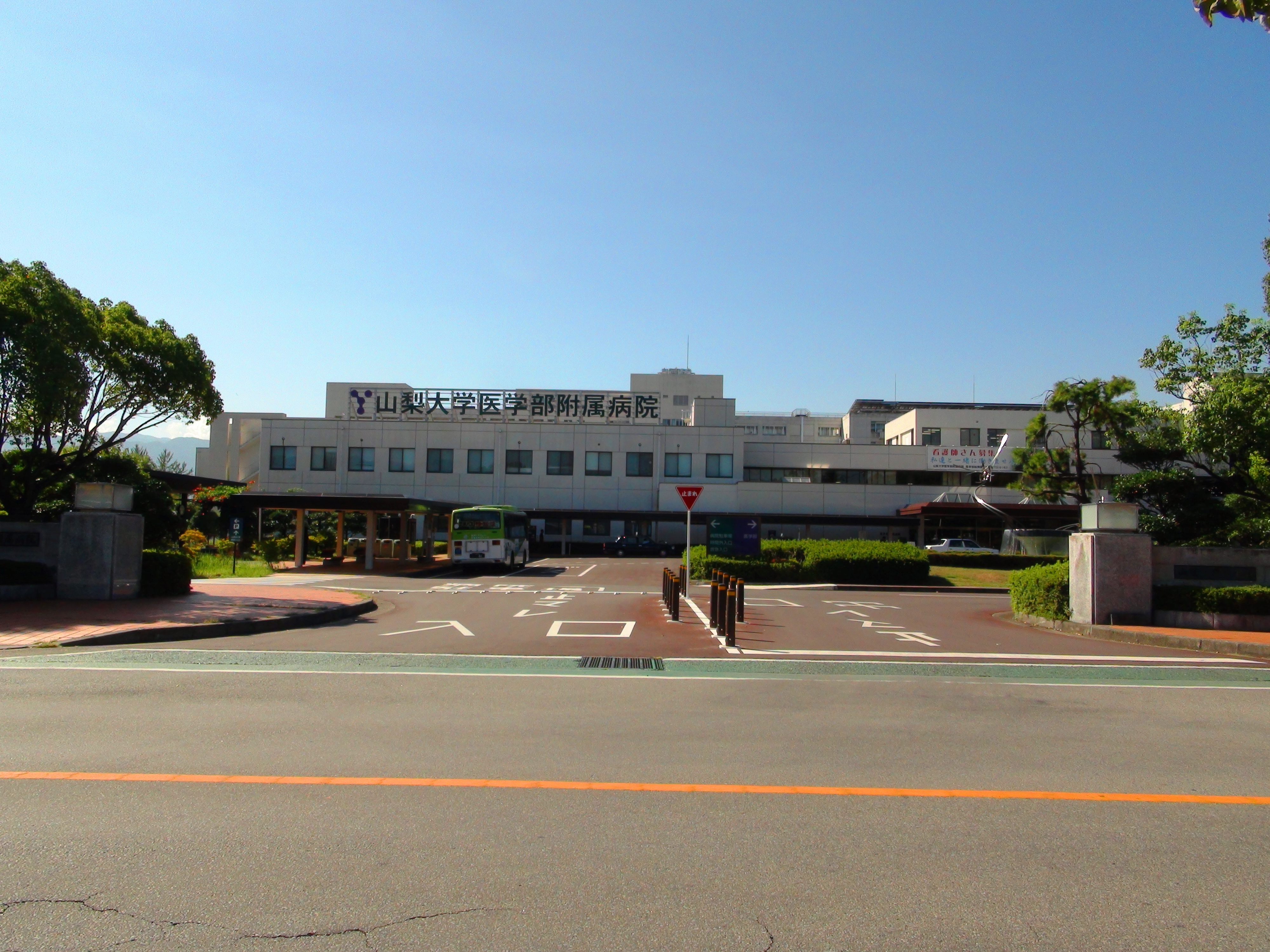 University of Yamanashi Hospital